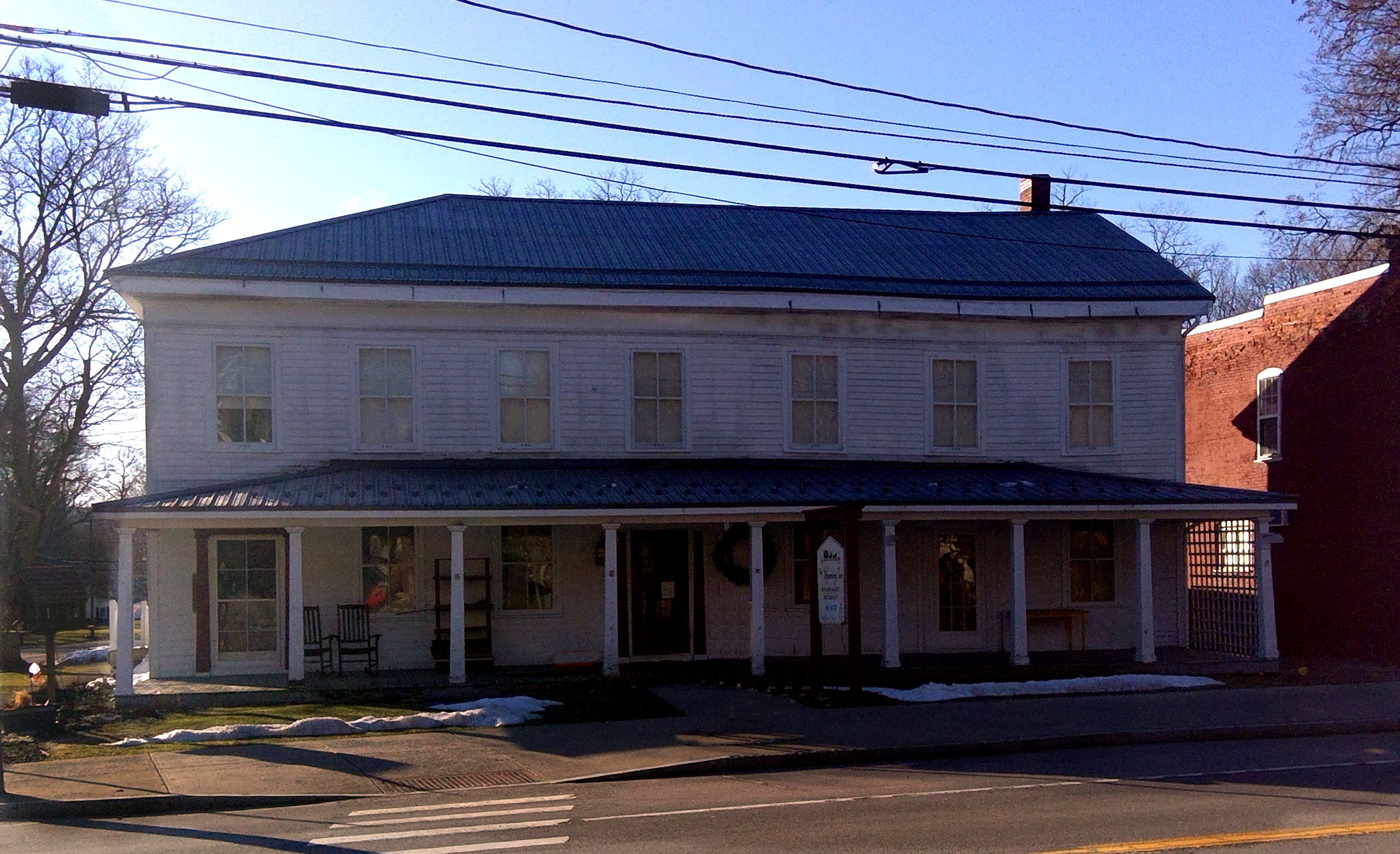 The historic Wyoming Inn built in 1832 and still operated as a hotel and restaurant. Located within the Wyoming Village Historic District, Wyoming, New York.